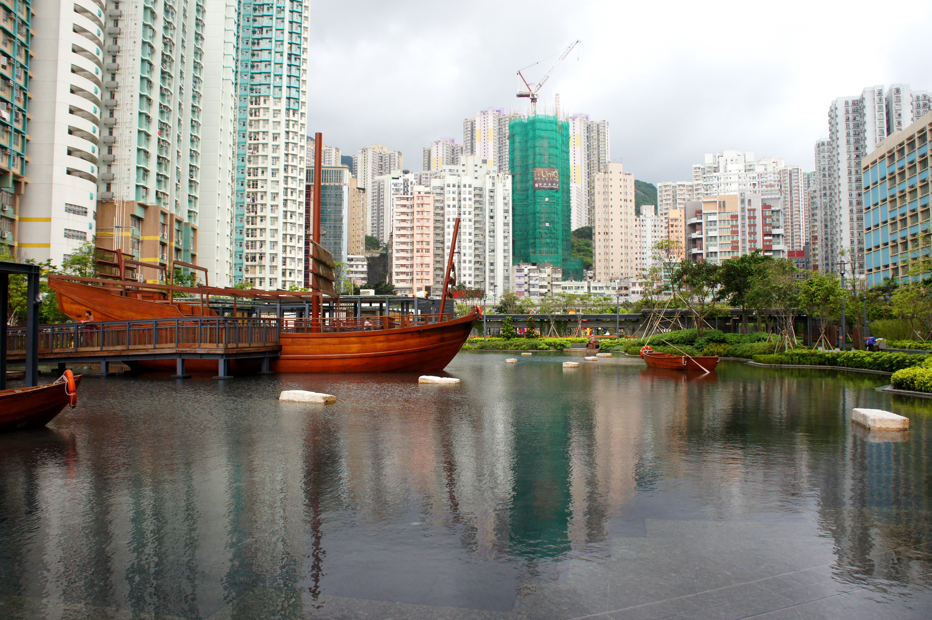 Aldrich Bay Park, Hong Kong.